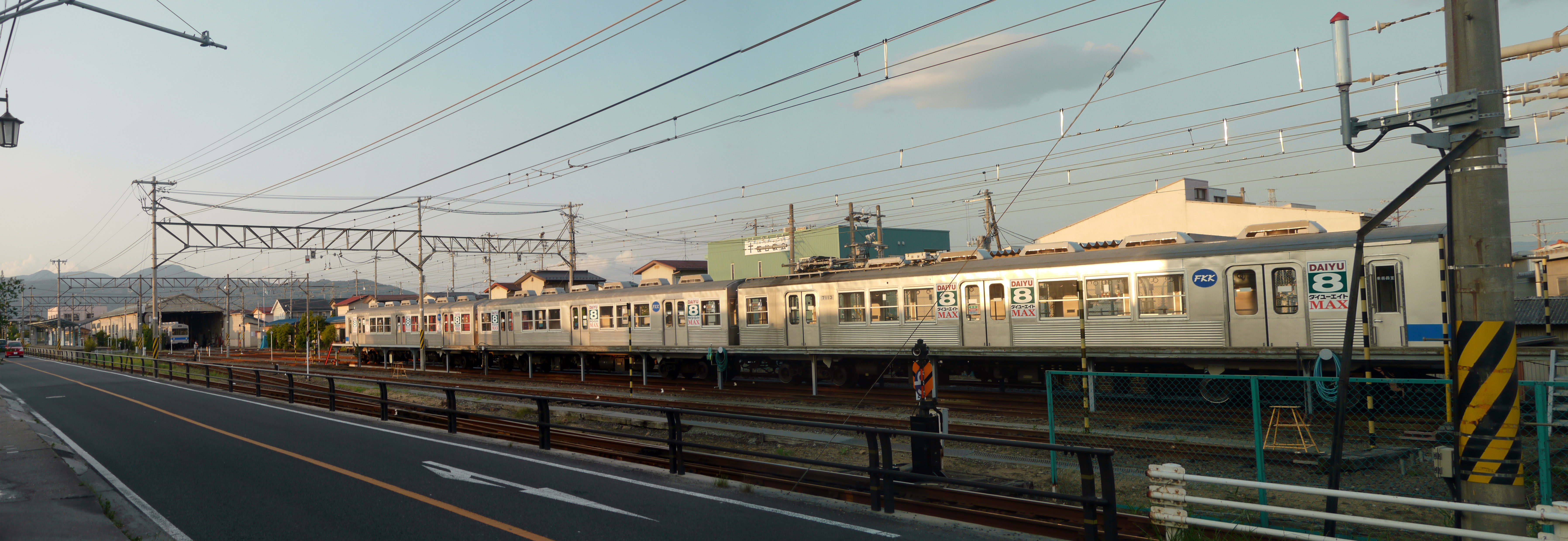 Fukushima Kotsu Iizaka Line Sakuramizu Railyard and Sakuramizu station platform in Fukushima, Fukushima, Japan